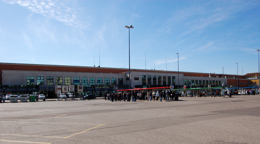 Verona Porta Nuova train station